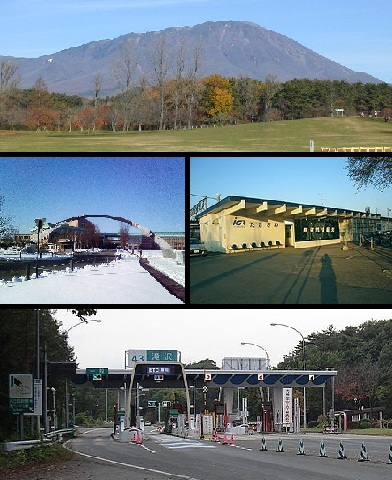 Takizawa montage